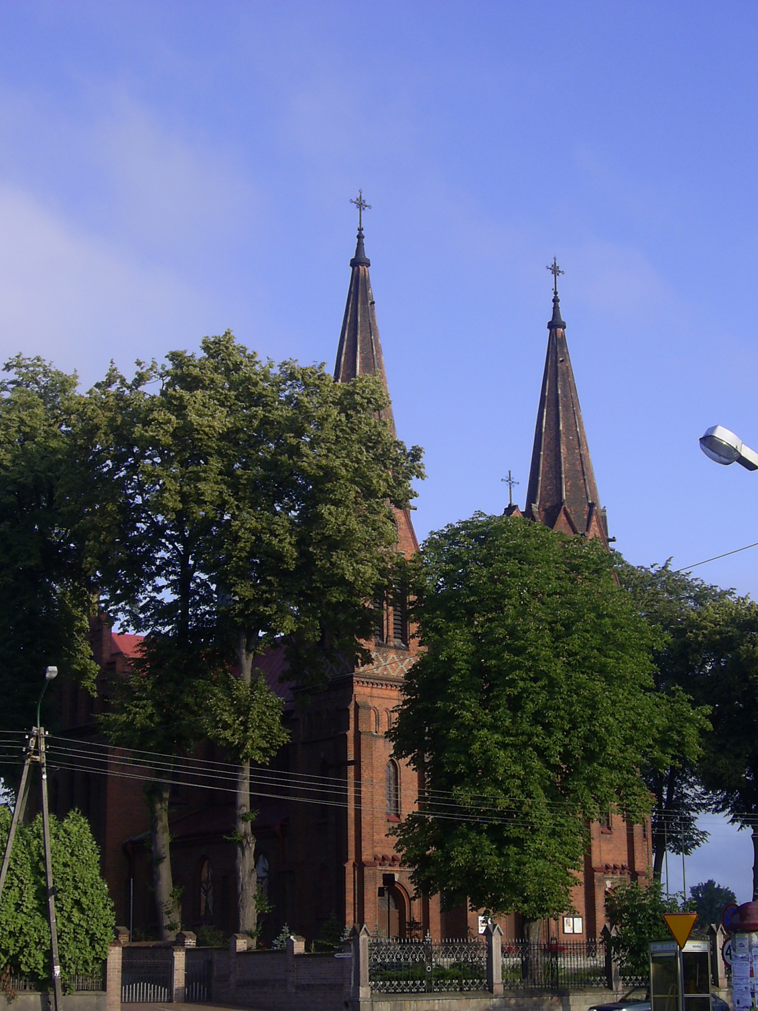 Saint Florian church in Mogielnica